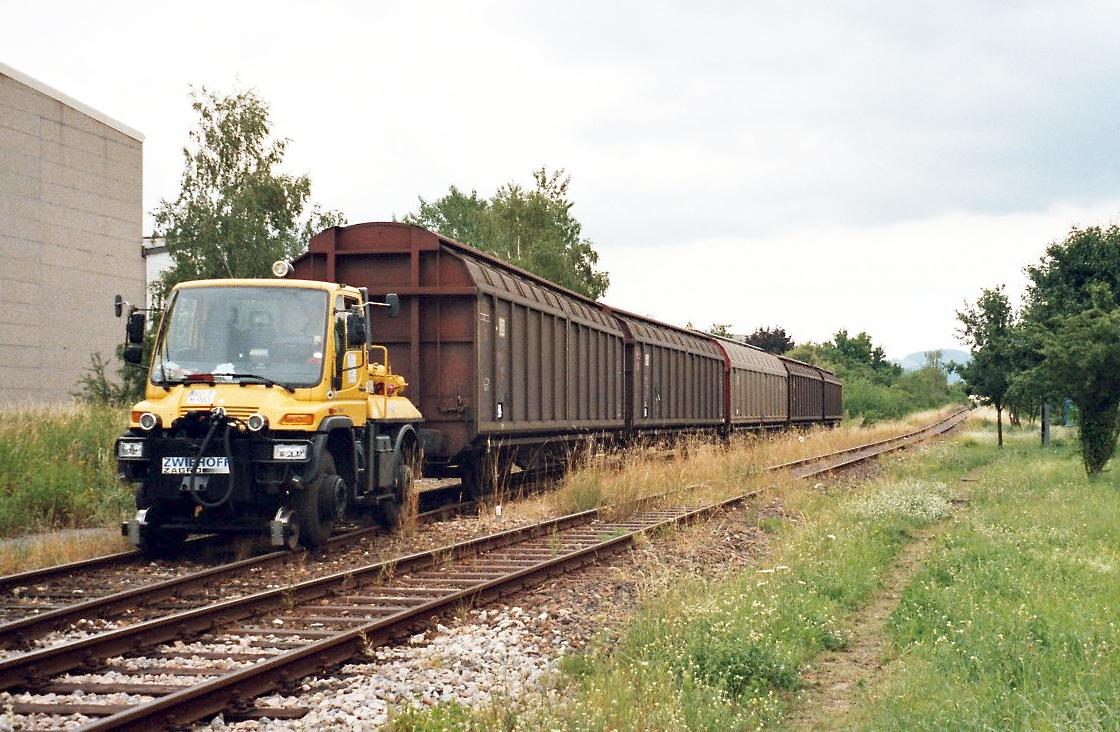 An road–rail Unimog serving as a shunting vehicle in Viernheim, Germany, on the Weinheim–Viernheim line.